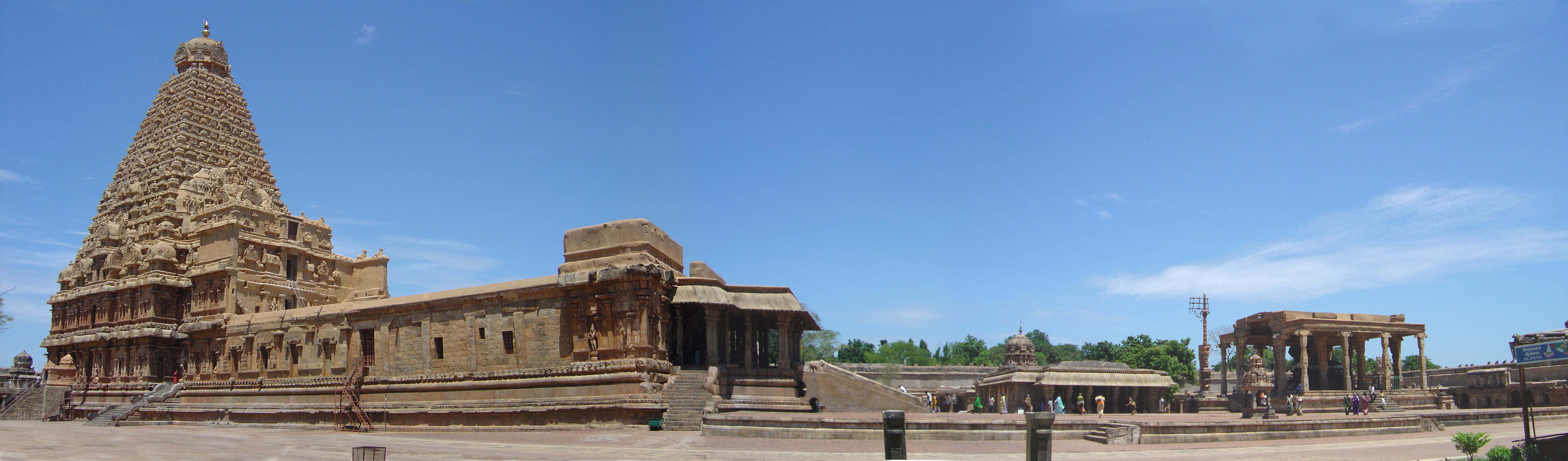 This is the vista of the Thanjavur Brihadeeswara Temple, also known as the Big Temple or the Rajarajeswara temple